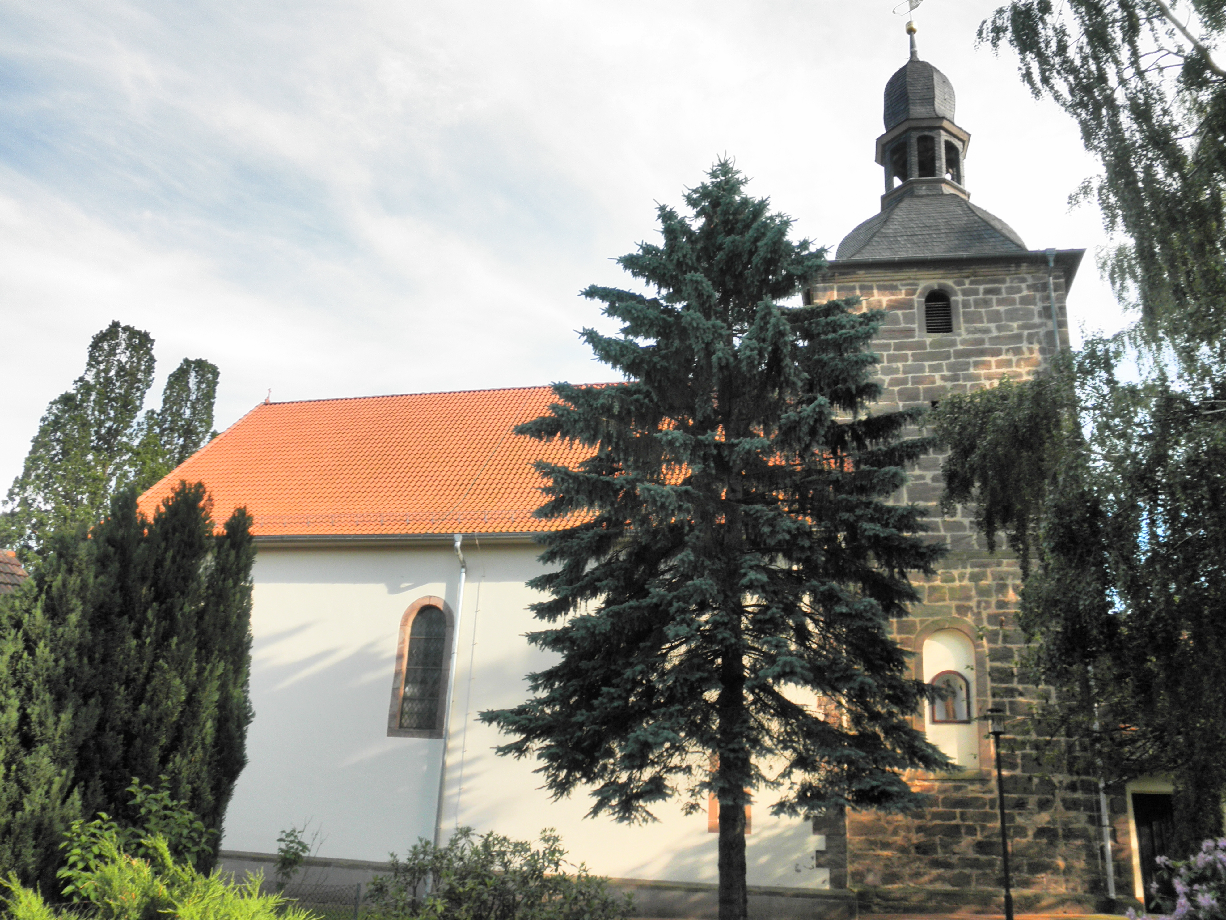 Church of Westhausen (in Bodenrode-Westhausen in Thuringia)